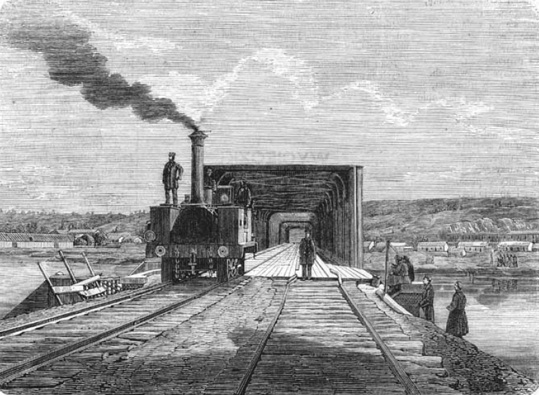 Nemunas crossing in Kaunas.